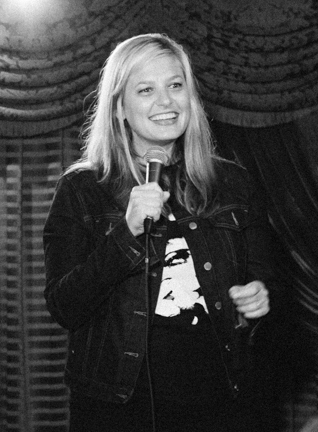 American comedienne Christina Pazsitzky from Not Safe For Work Presented by Comedy Central Produced by CleftClips Photography by Mandee Johnson / The Del Monte Speakeasy at Townhouse Venice - Los Angeles, CA